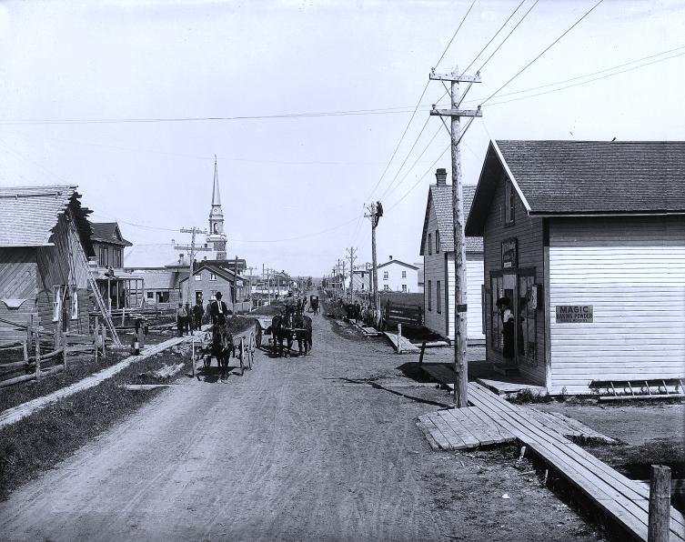 Photograph, St. Bruno, Lake St. John, QC, about 1906, Wm. Notman & Son. Silver salts on glass - Gelatin dry plate process - 20 x 25 cm